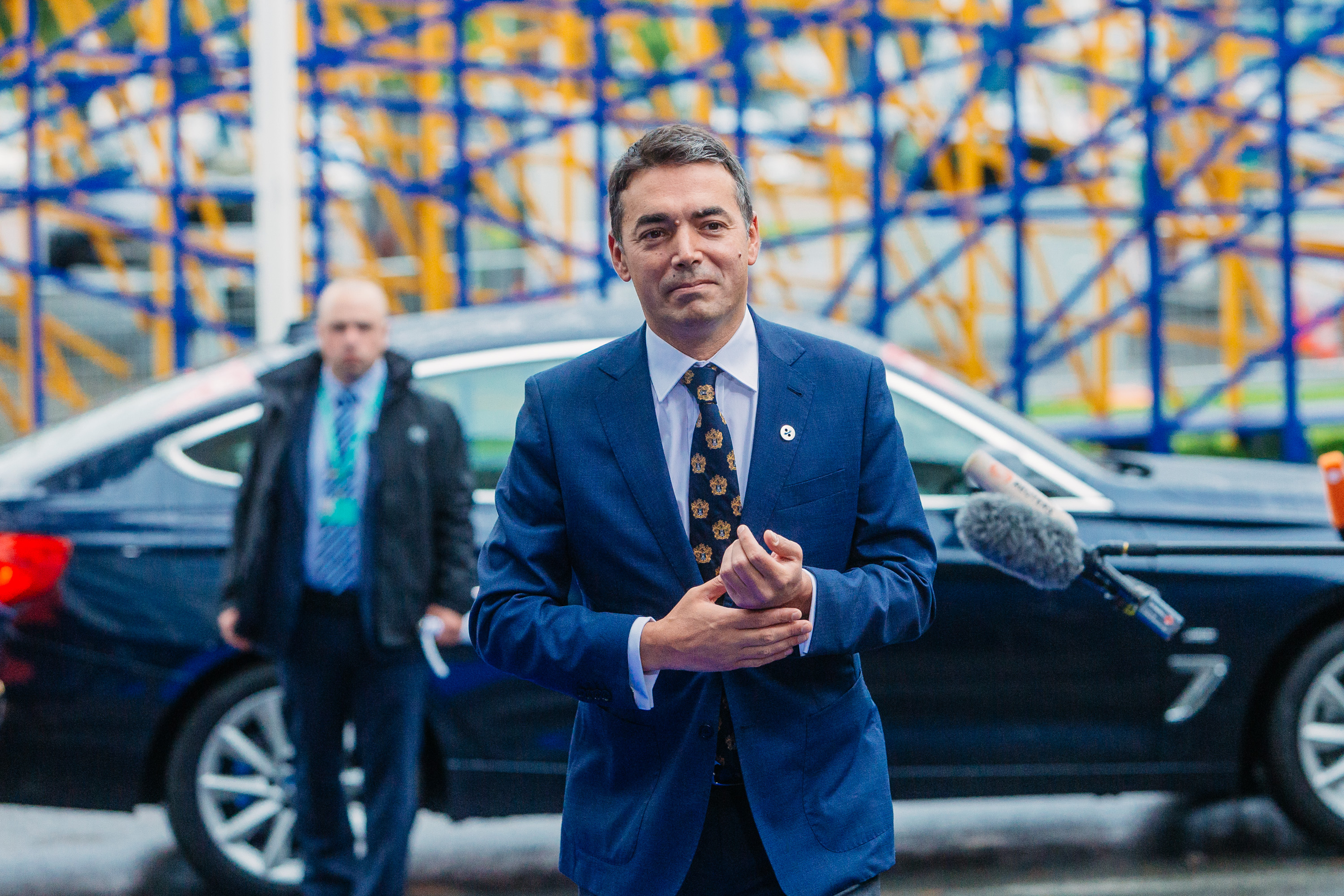 Nikola Dimitrov, Ministry of Foreign Affairs, Minister, Former Yugoslav Republic of Macedonia Photo: Arno Mikkor (EU2017EE)